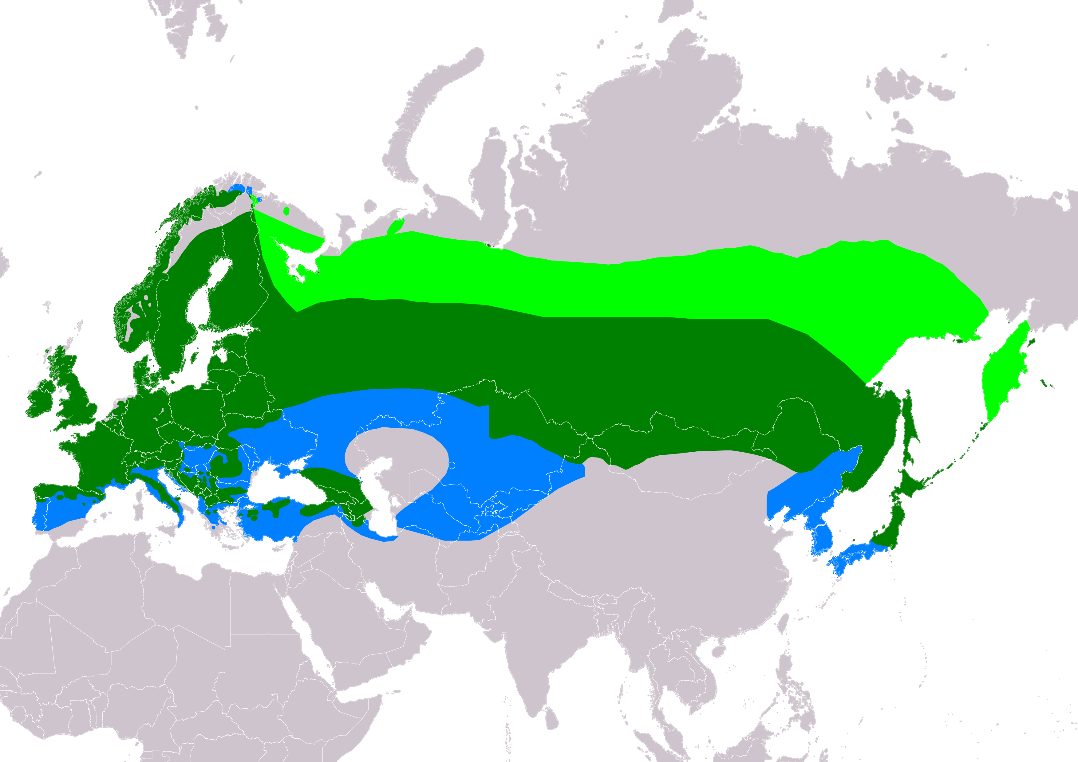 Distribution map of Eurasian Bullfinch (Pyrrhula pyrrhula) according to IUCN version 2019-3; key: Legend: Extant, breeding (#00FF00), Extant, resident (#008000), Extant, non-breeding (#007FFF)